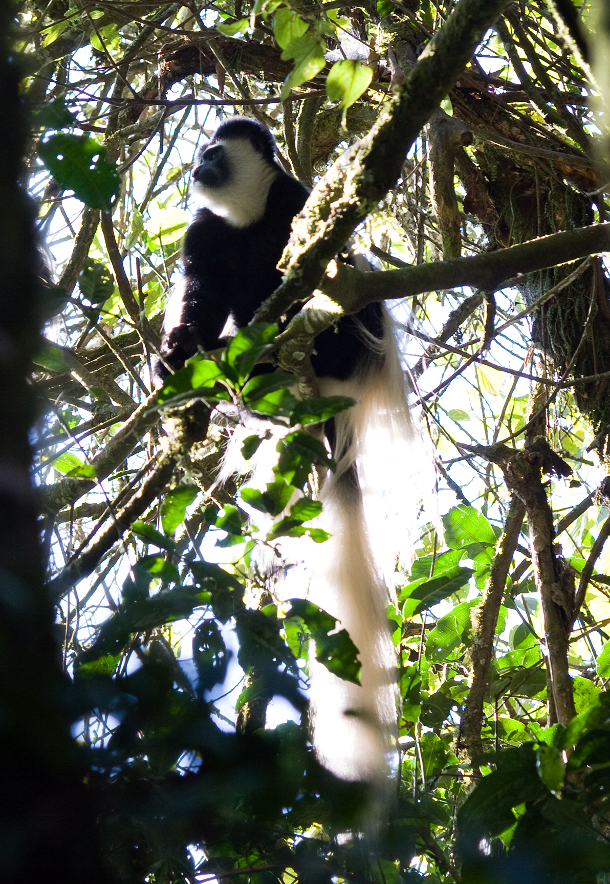 We saw a flock of Black-and-white colobus monkeys in the tree-tops in the rain forest on the last part of the descend.